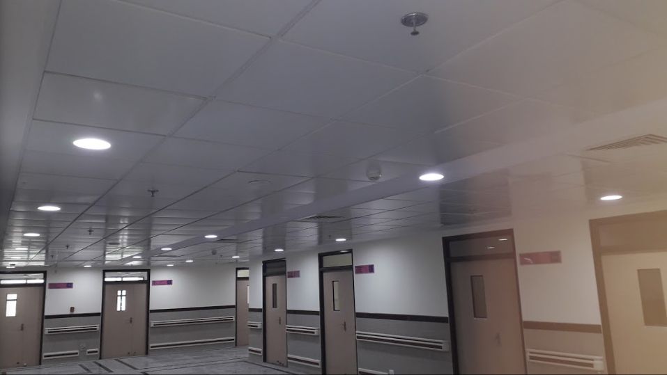 Inside B C Roy Medical super specialty hospital Kharagpur